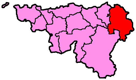 Location of the constituency of Verviers in Wallonia